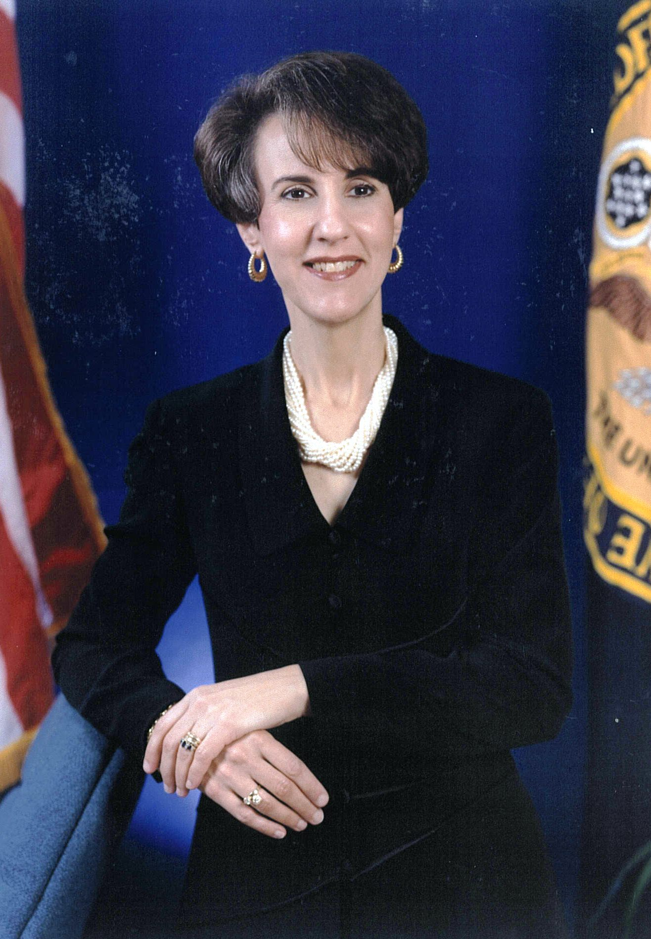 Official portrait of former U.S. Trade Representative Charlene Barshefsky.